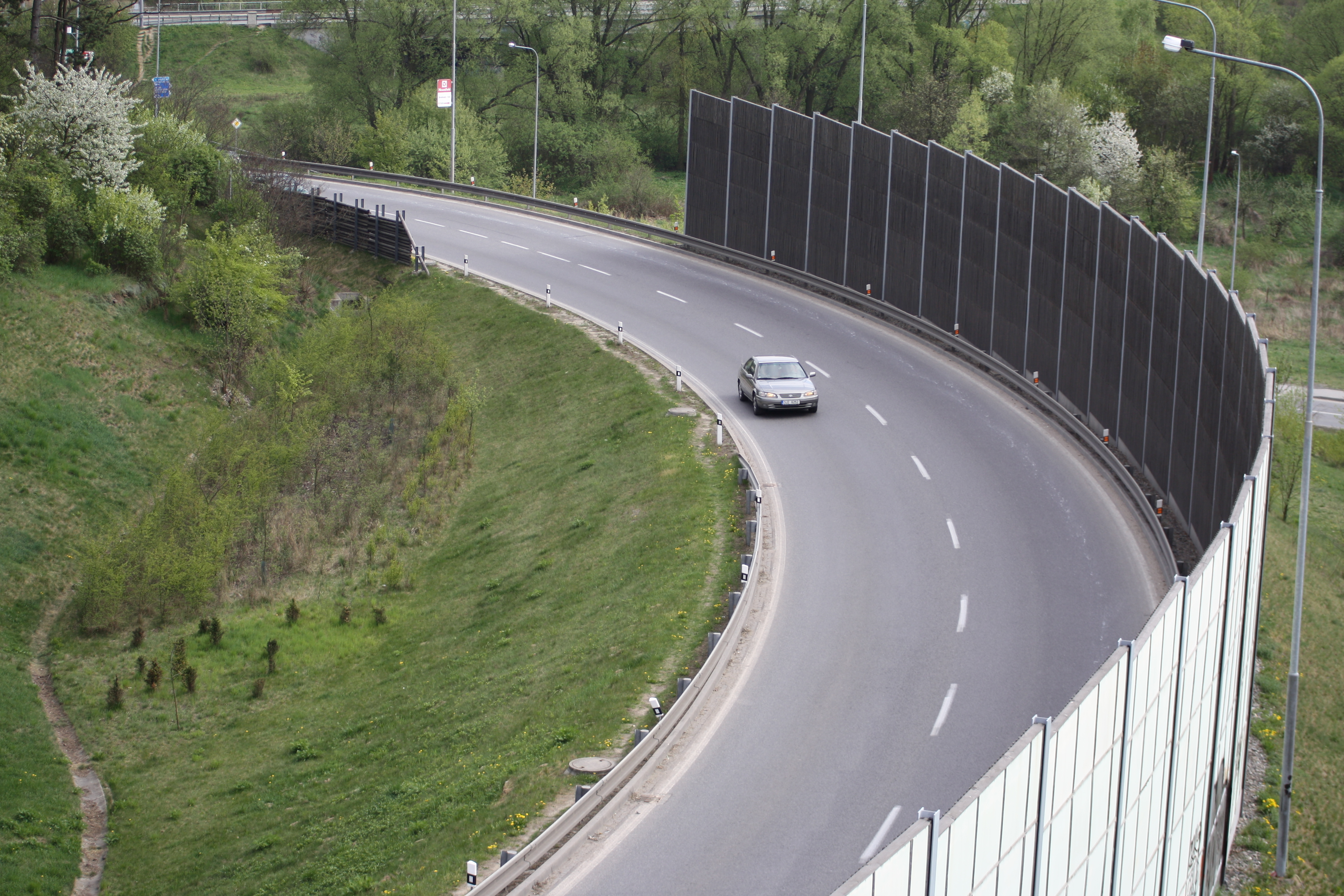 Circular road in Třebíč, Czech Republic.